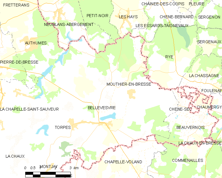 Map of French municipality